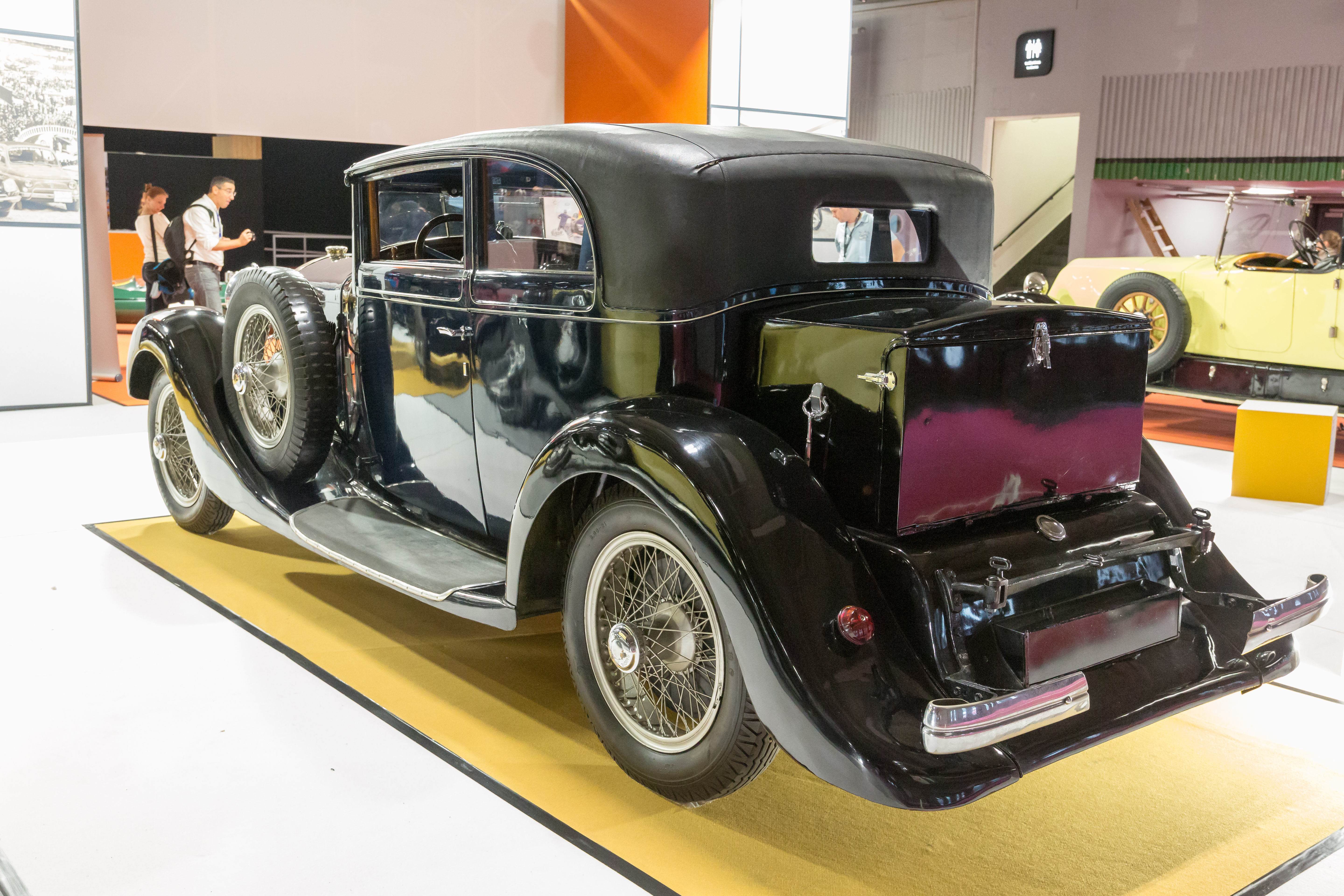 Press days at Mondial Paris Motor Show 2018